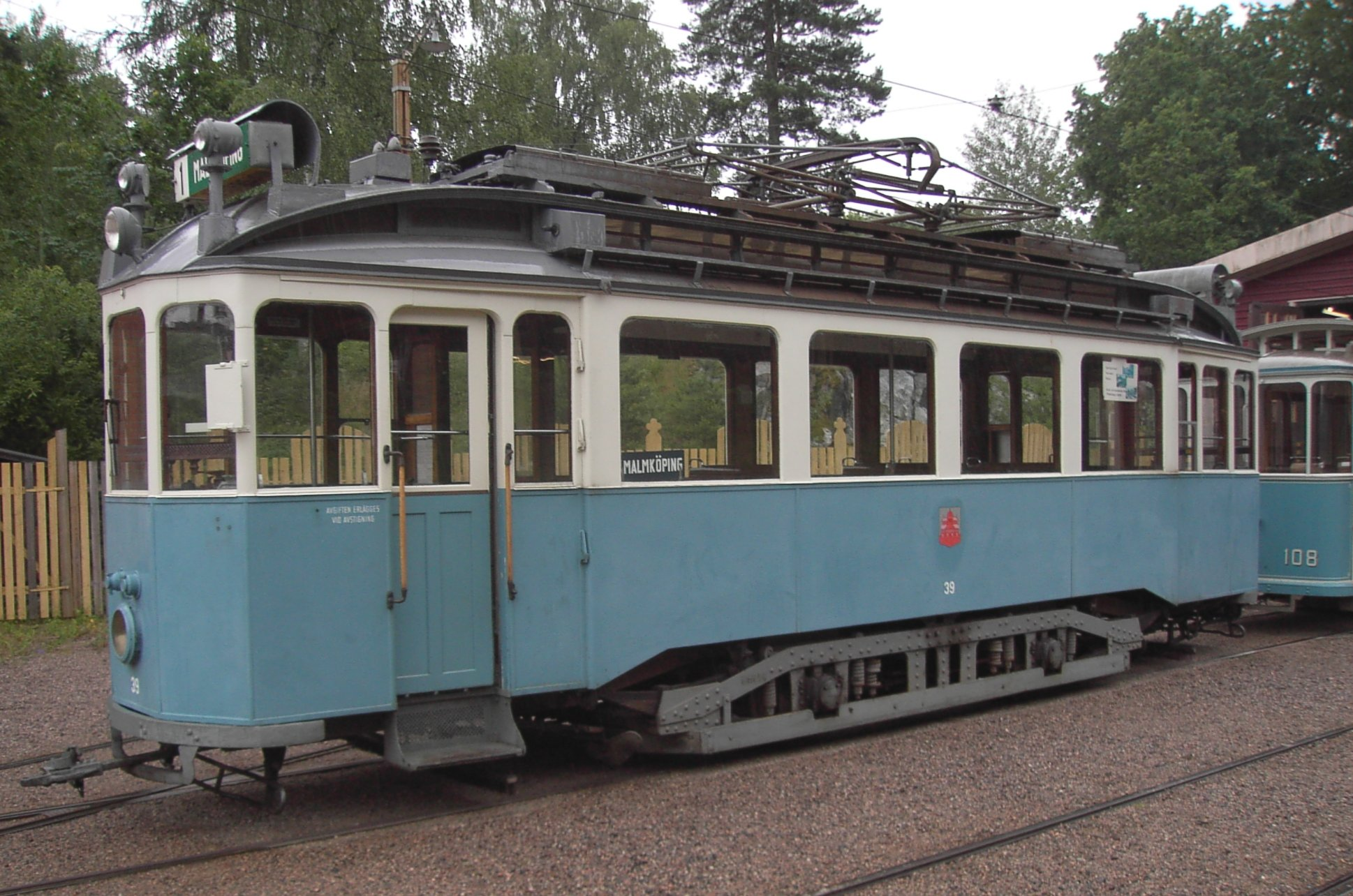 Tram #39 from Helsingborg is kept at the Tramway museum in Malmköping. The tram was built by ASEA in 1928.